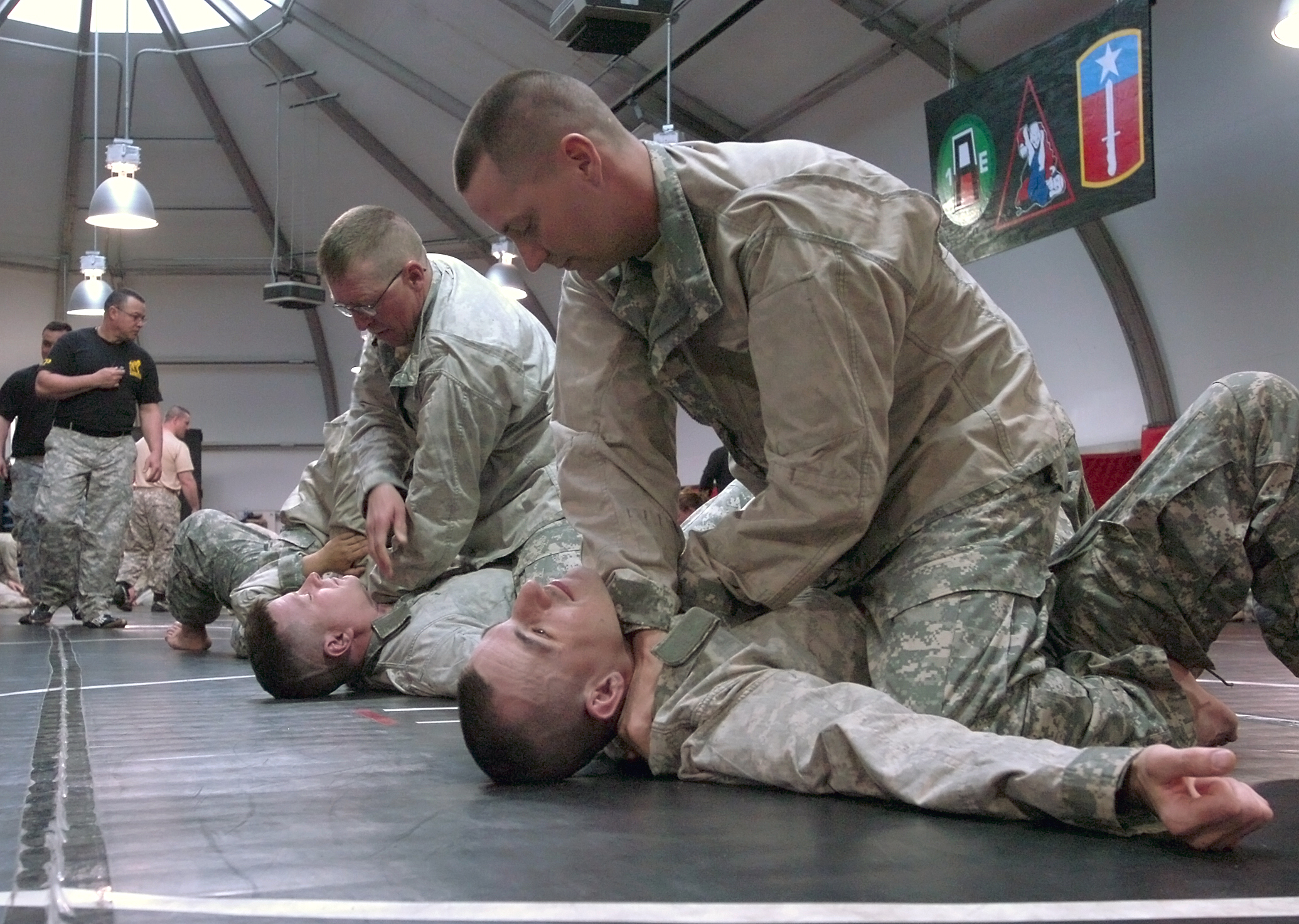 U.S. Army instructors provide training for soldiers during a basic combatives course on Camp Atterbury, Ind., March 23, 2009.